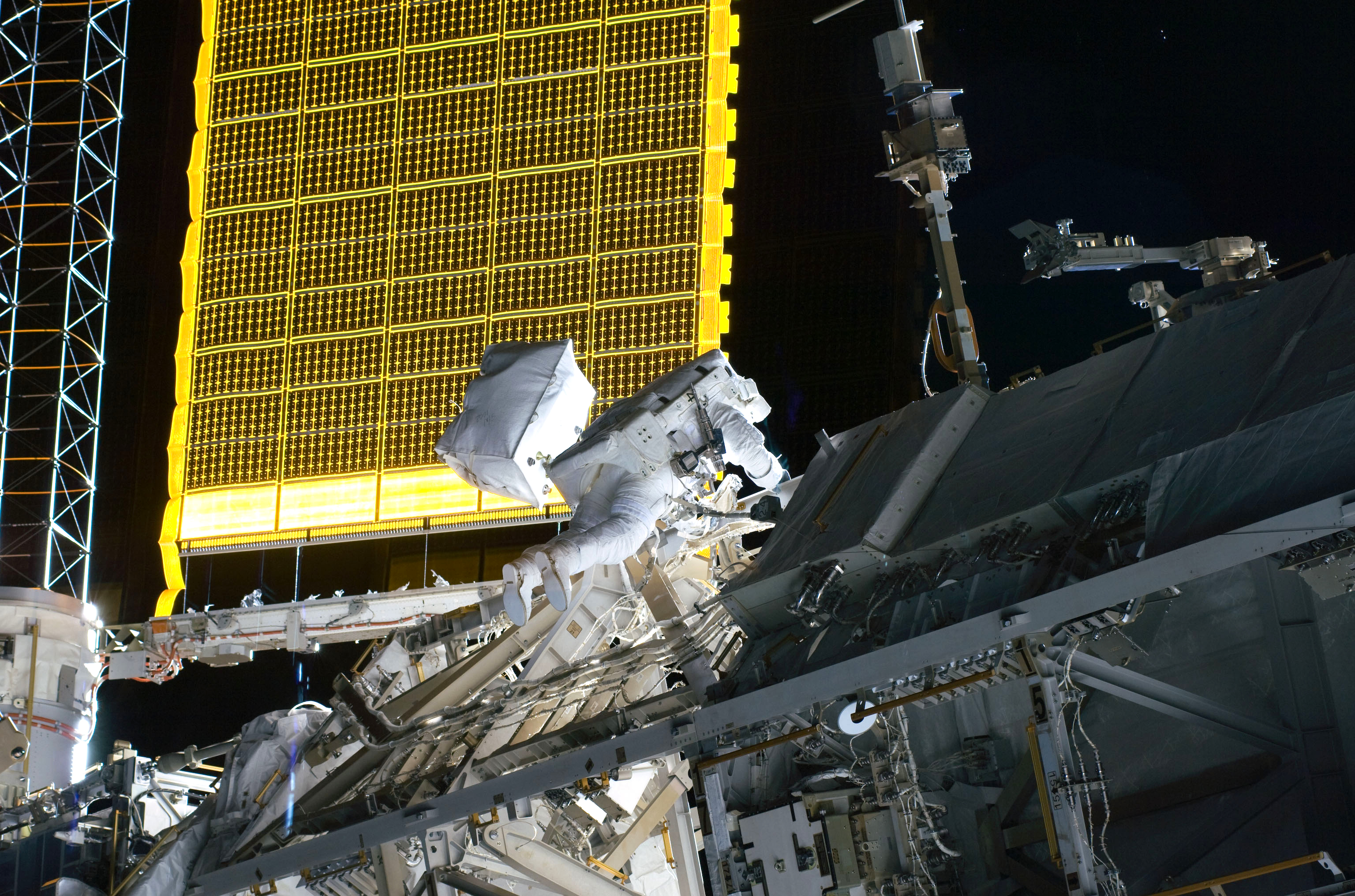 Astronaut Steve Bowen, STS-126 mission specialist, participates in the mission's first session of extravehicular activity (EVA) as construction and maintenance continue on the International Space Station. During the six-hour, 52-minute spacewalk, Bowen and astronaut Heidemarie Stefanyshyn-Piper (out of frame), mission specialist, worked to clean and lubricate part of the station's starboard Solar Alpha Rotary Joints (SARJ) and to remove two of SARJ's 12 trundle bearing assemblies. The spacewalkers also removed a depleted nitrogen tank from a stowage platform on the outside of the complex and moved it into Endeavour's cargo bay. They also moved a flex hose rotary coupler from the shuttle to the station stowage platform, as well as removing some insulation blankets from the common berthing mechanism on the Kibo laboratory.